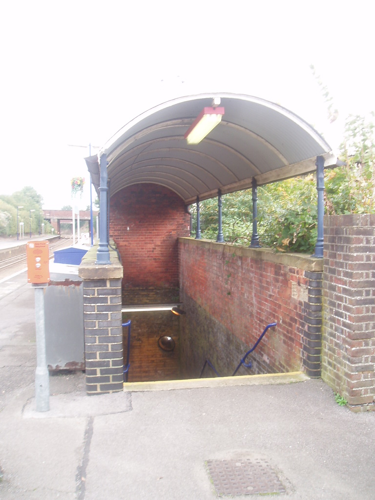 Created by Ojw while surveying for OpenStreetMap